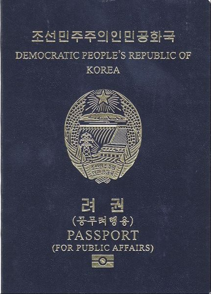 DPRK Passport for Public Affairs with Biometric Chip